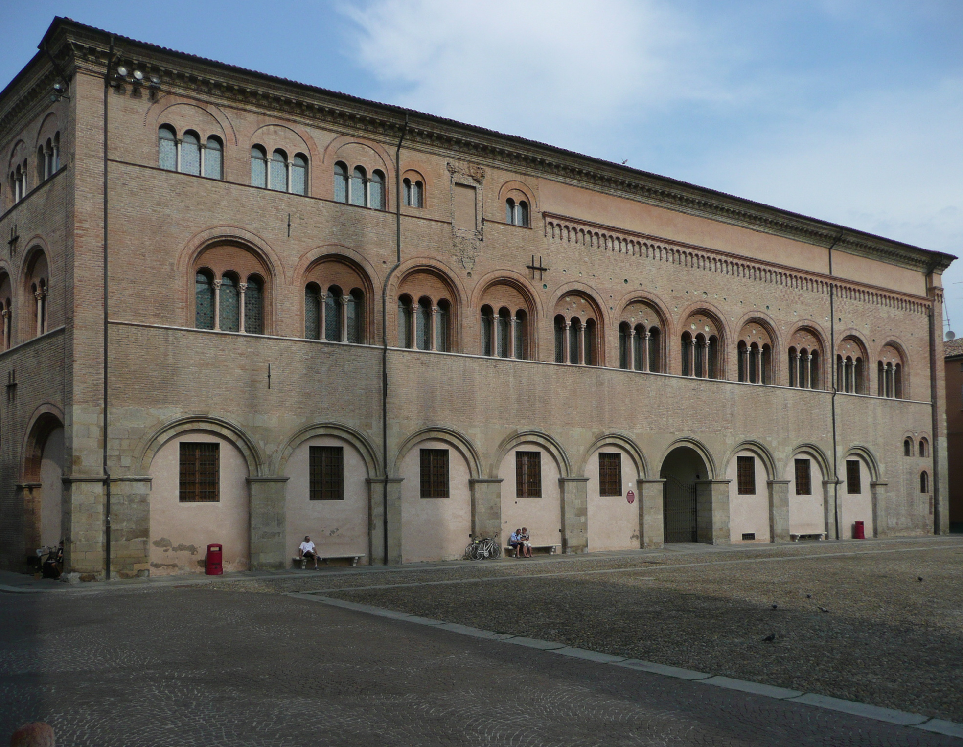 Bishop's Palace (Vescovado) of Parma